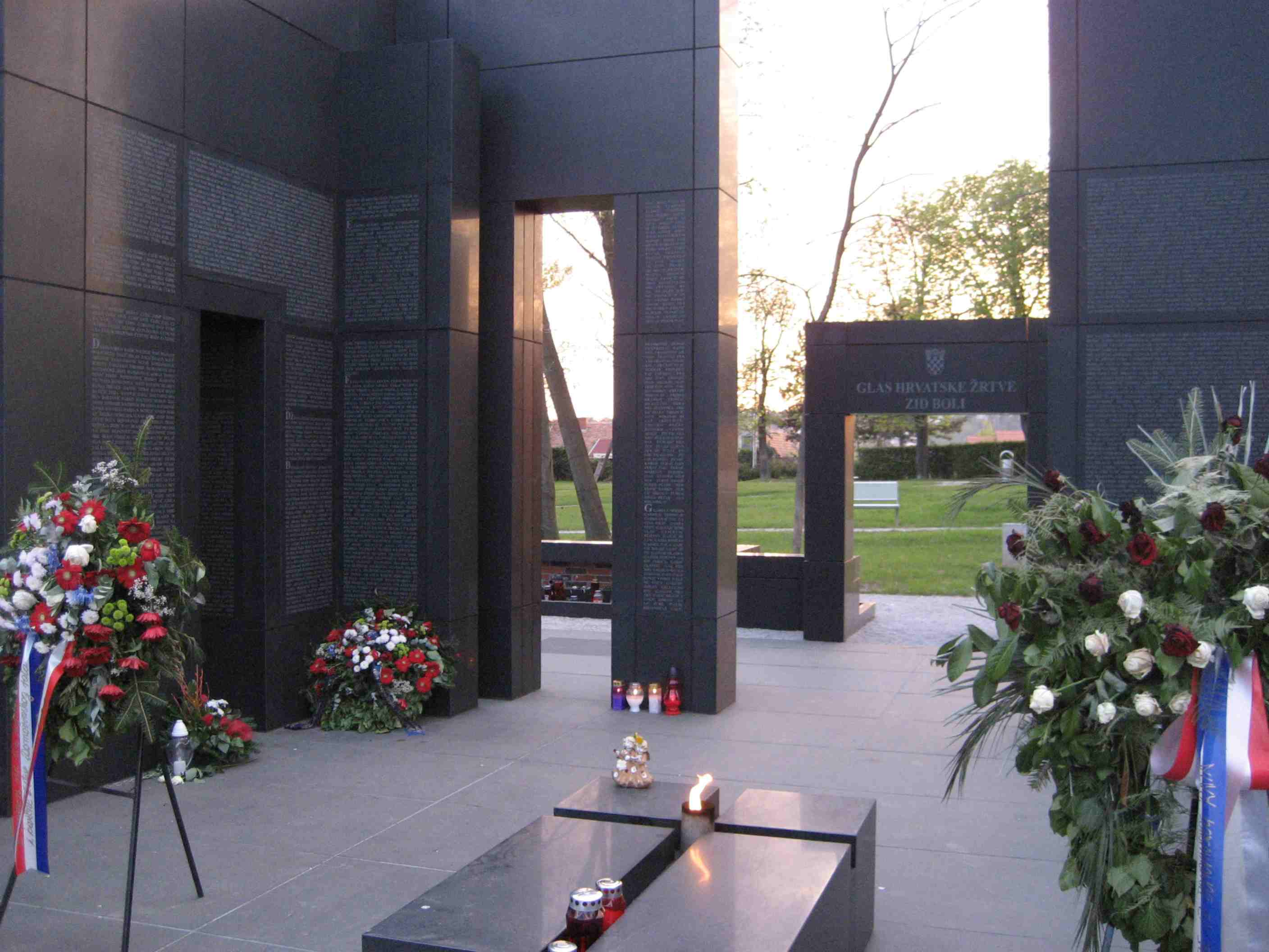 (Voice of croatian vicims, wall of pain)